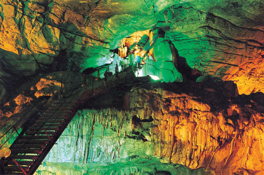 Illuminated view of Borra Caves